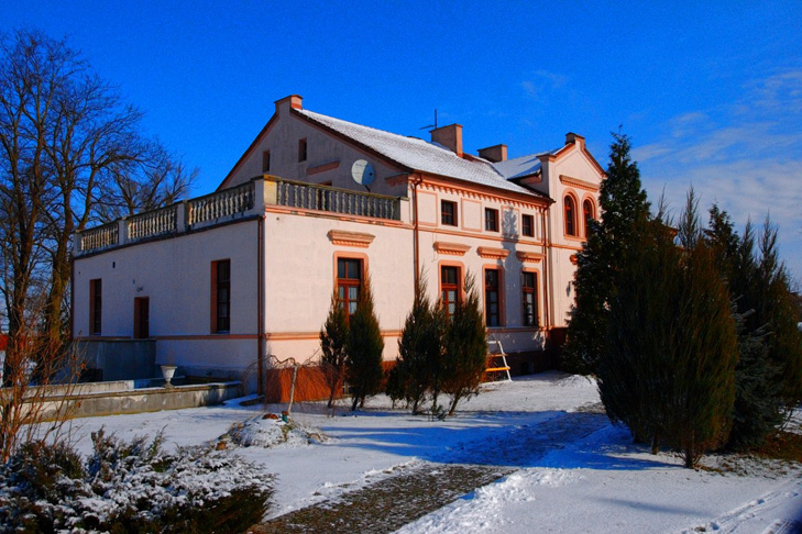 Gozdawa Dwór Franza Guthke